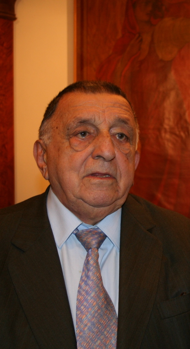 Master Franco De Gemini, the Harmonica Man